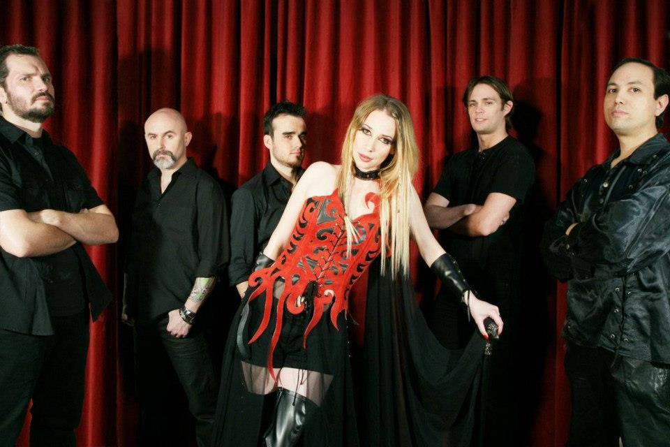 Whyzdom's line upas of February 1, 2013